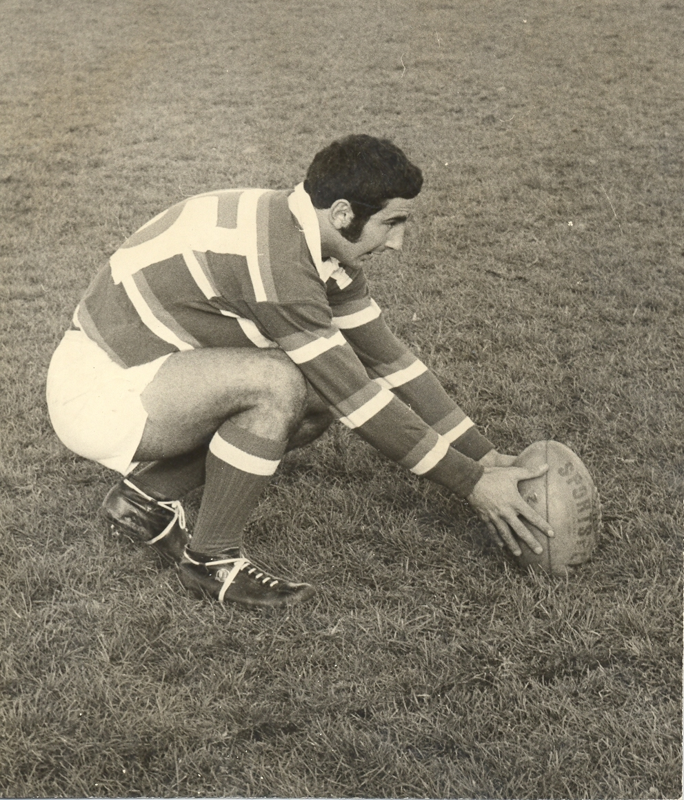 Horowhenua Fullback J. Karam places the ball for 1 of the 4 penalties he kicked during Sat’s Horowhenua vs Manawatu rugby match. Final score was 35 – 12 to Manawatu. Mon. July 12, 1971